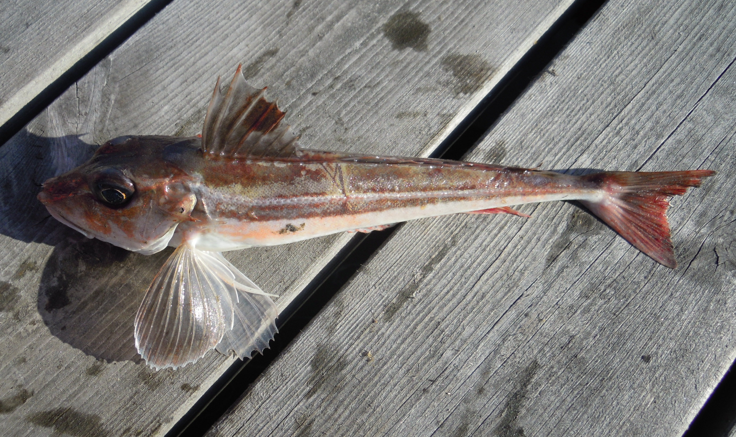 Gurnard - caught by fishing net in Norway